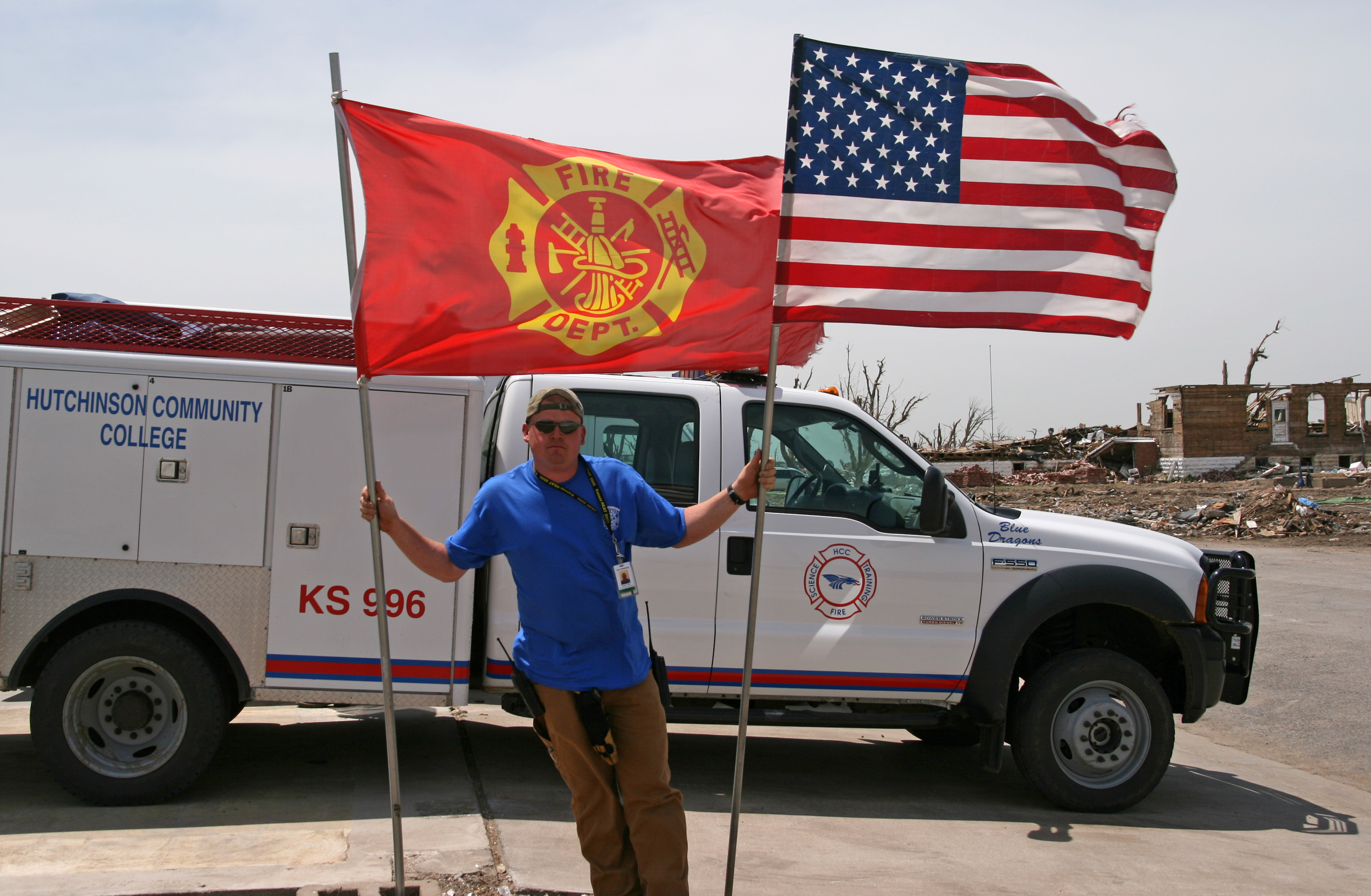 Greensburg, KS, June 6, 2007 -- Chance Little, Greensburg's Fire Chief, has to hold on to the flags at his temporary fire station due today's high winds, which at times approached 50 mph. On May 4 a tornado damaged most of the trees leaving the landscape open. Photo by Greg Henshall / FEMA